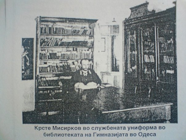 Krste Petkov Misirkov in uniform in library in Odesa, Ukraine.